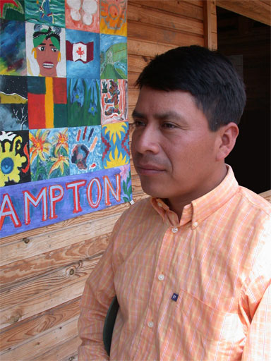 A picture of Jesús Tecú Osorio, Guatemalan human rights activist.